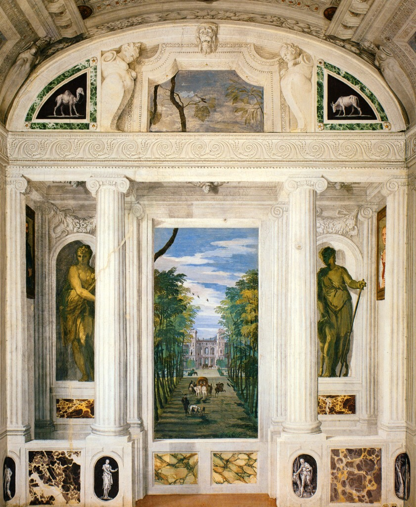 Veronese - wallpainting in villa Barbaro